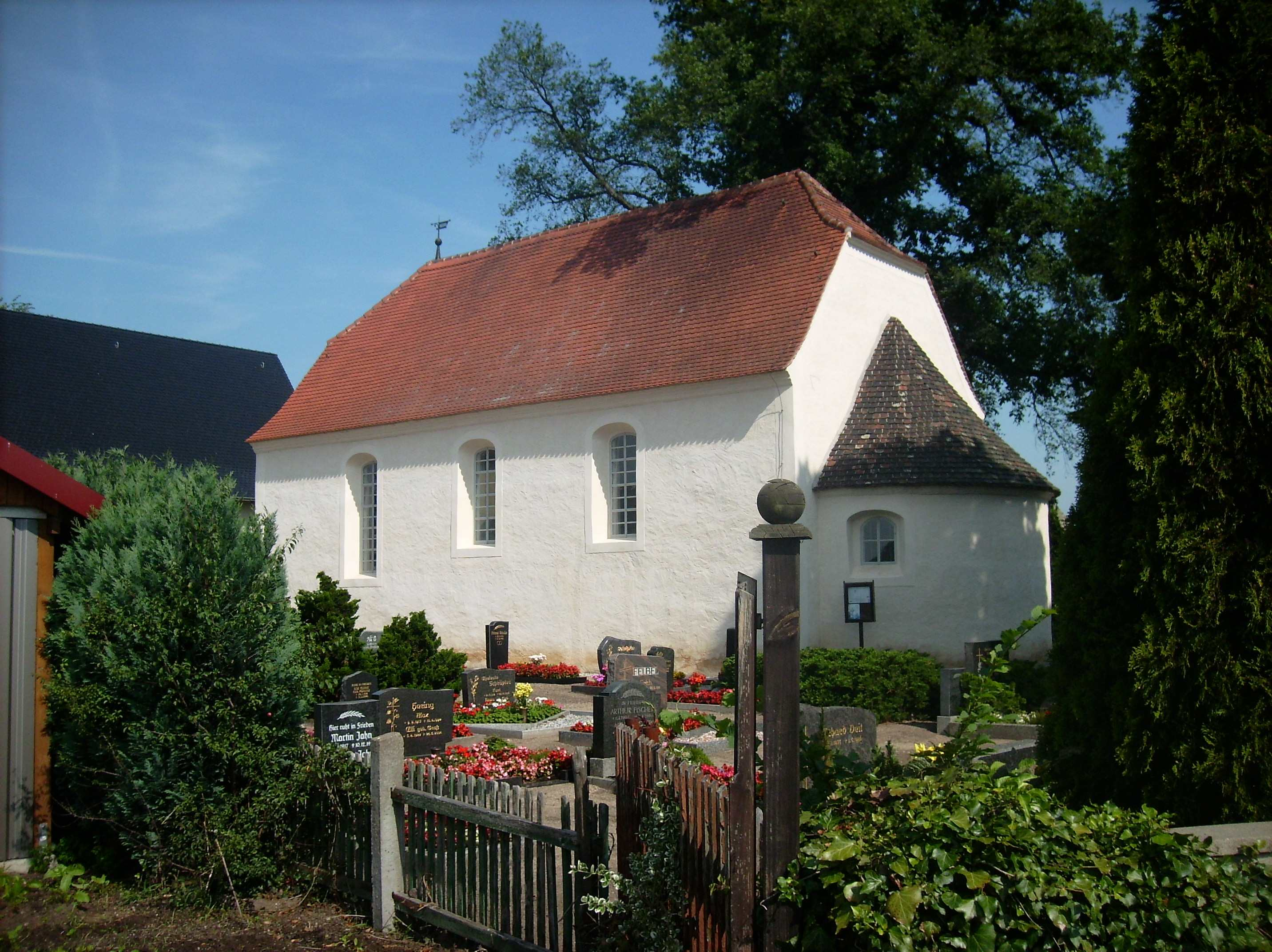 St. Mary's Church in Battaune (Doberschütz, Nordsachsen district, Saxony)